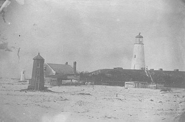 The Mobile Point Lighthouses prior to the American Civil War. They were destroyed during the Battle of Mobile Bay.